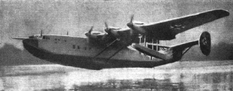 The Potez-CAMS 161 about 1942. This picture is misidentified by the caption as the unbuilt Potez-CAMS 140.